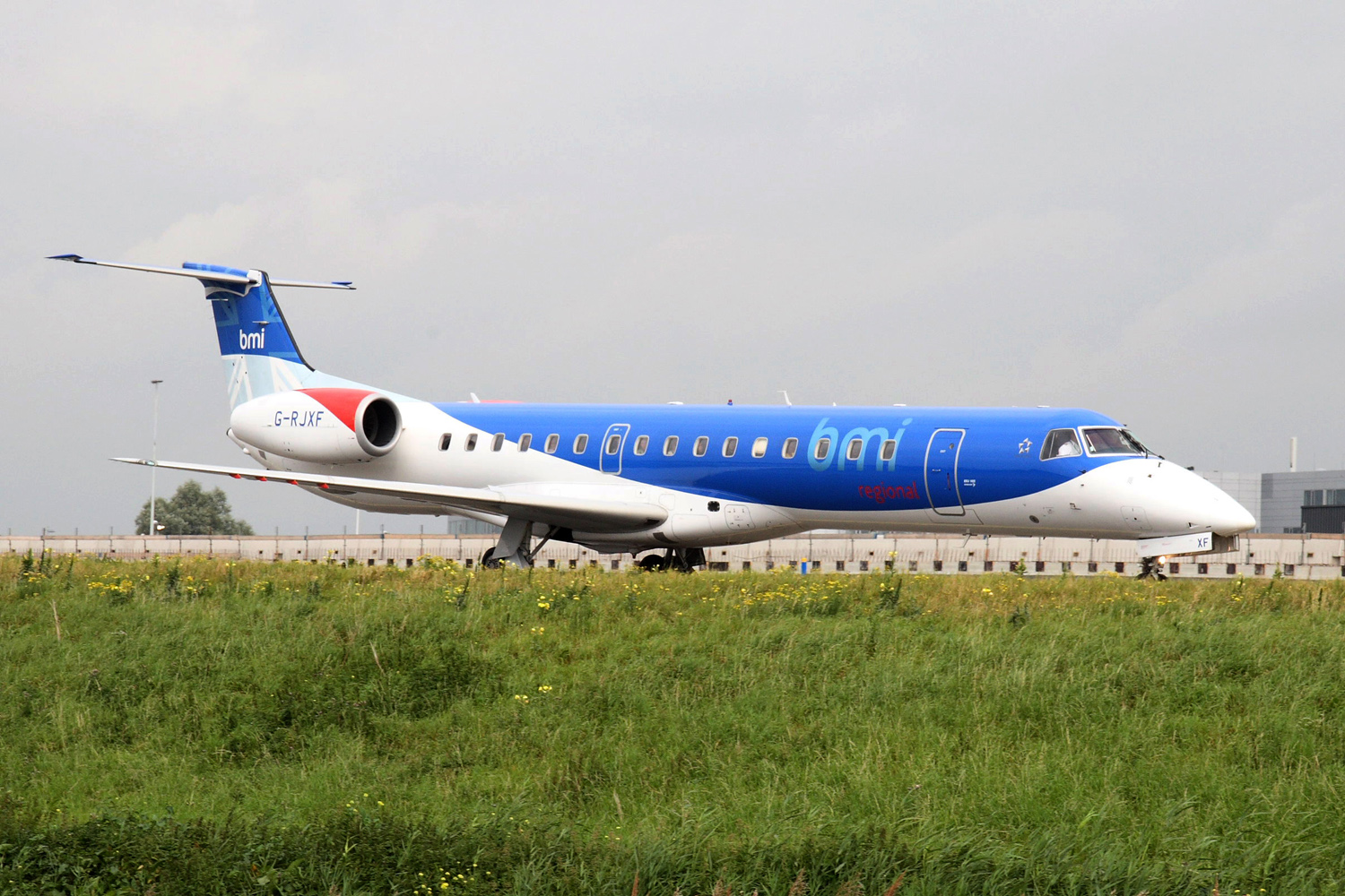 bmi Regional Embraer 145 with registration G-RJXF taxies to the gate at Schiphol Airport, The Netherlands, saturday September 22nd 2007.